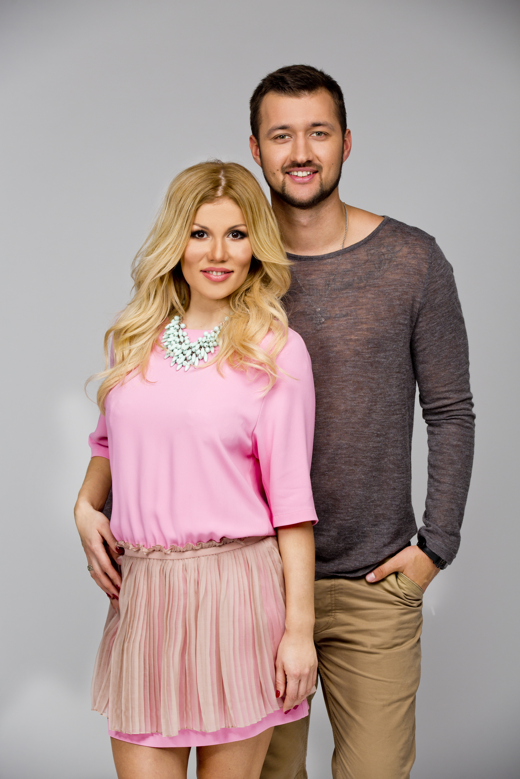 Украинский r'n'b дуэт Tamerlan&Alena